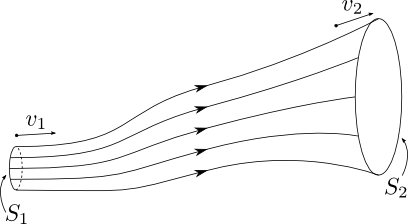 Picture for derivation of Bernoulli equation